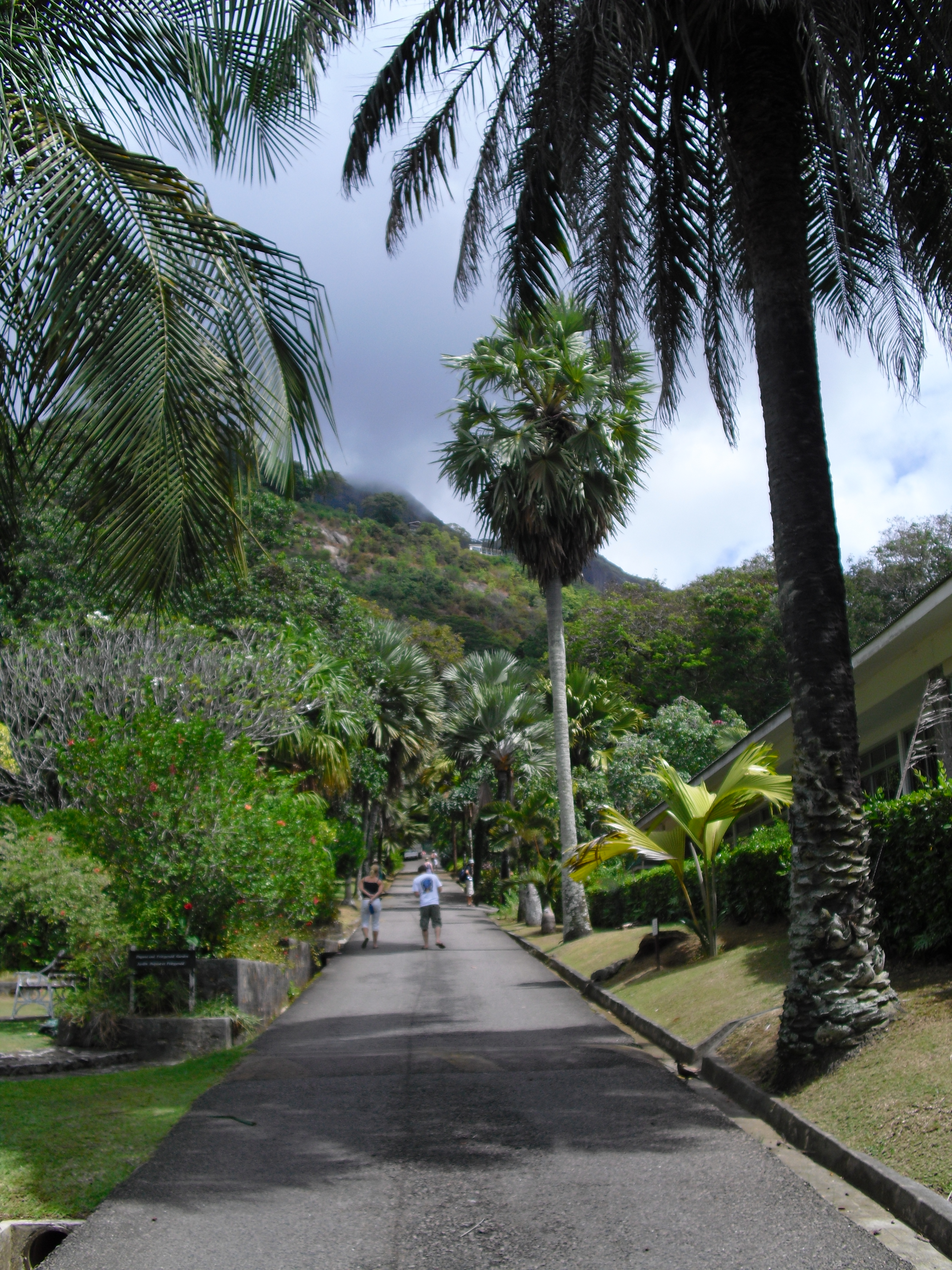 Mont Fleuri Botanical Gardens Seychelles, Victoria: Entrance